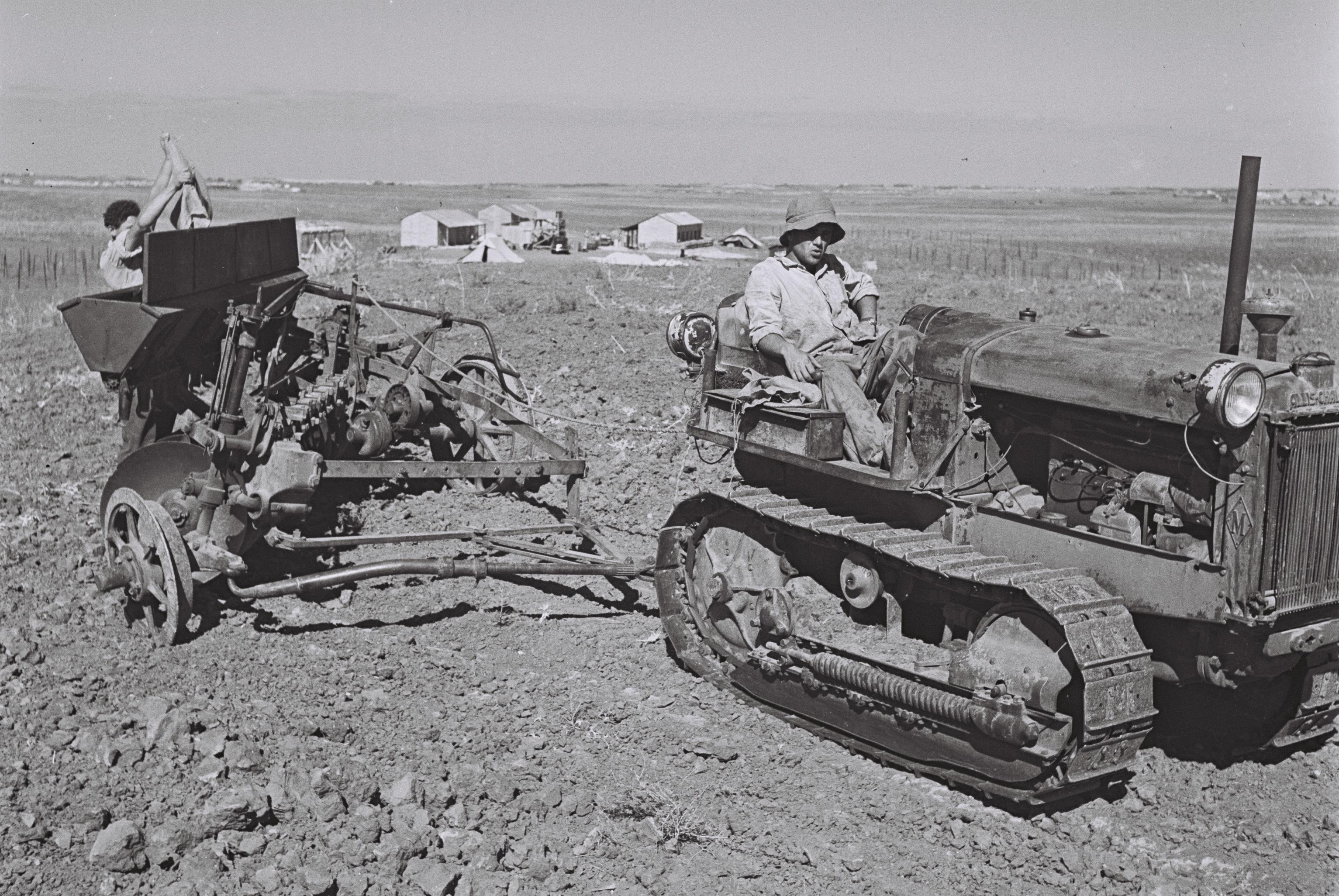 MEMBERS OF KIBBUTZ KEDMA WORKING IN THE FIELD. חלוצים חורשים בשדות קיבוץ קדמה.